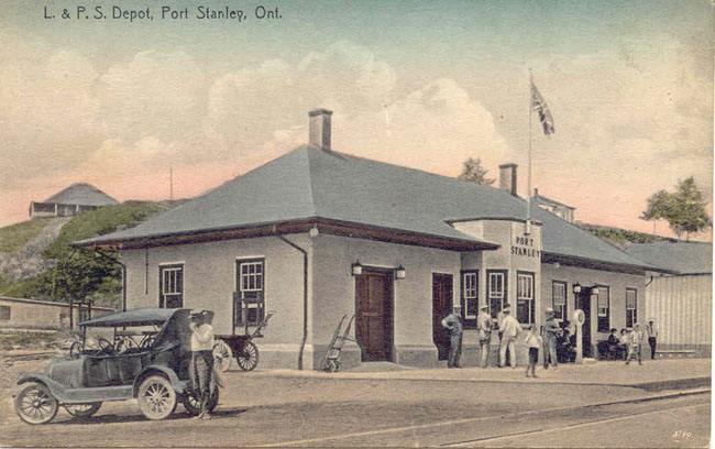 Port_Stanley_station of the London and Port Stanley radial raiilway.